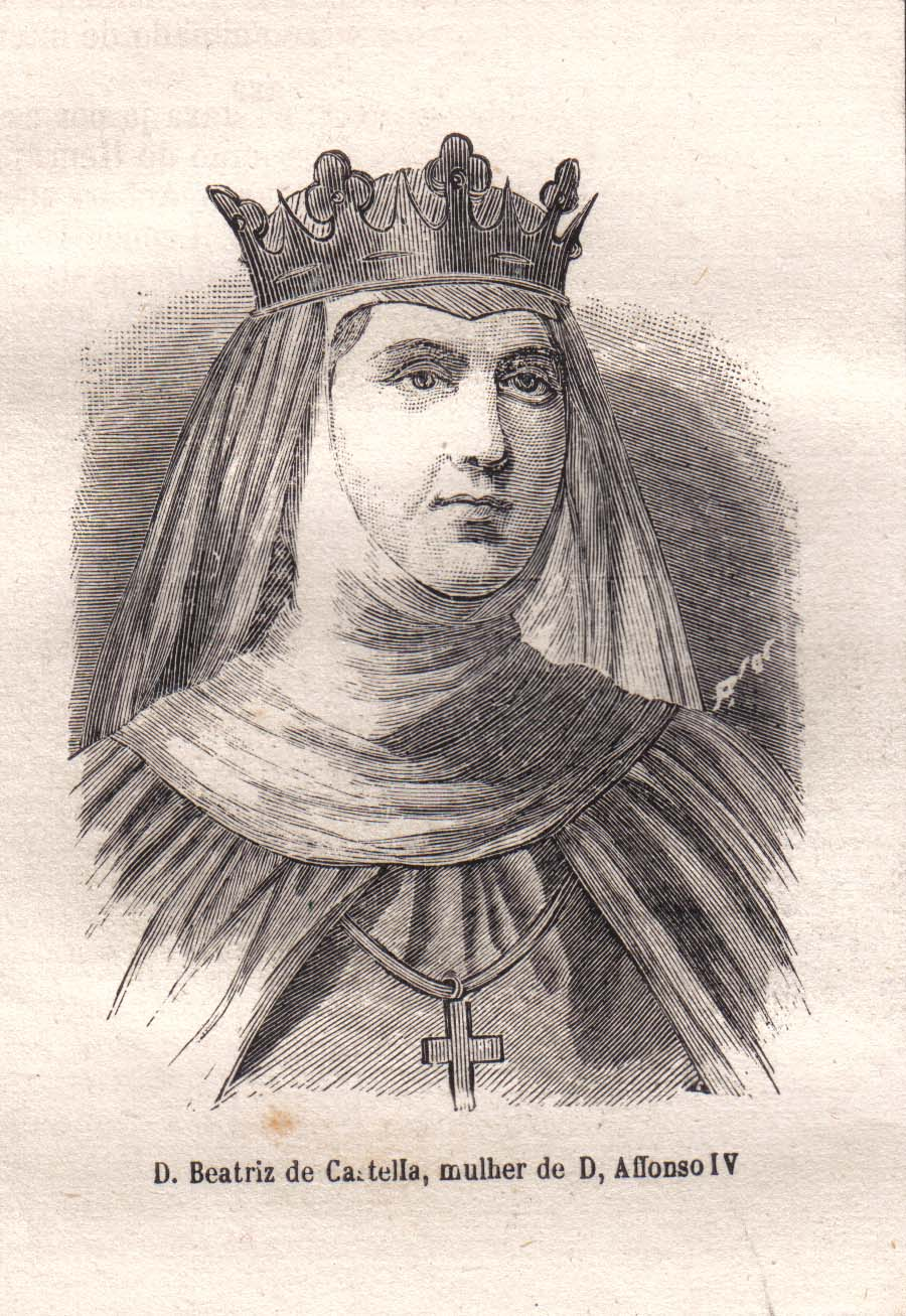 Beatrice of Castile (1293–1359)